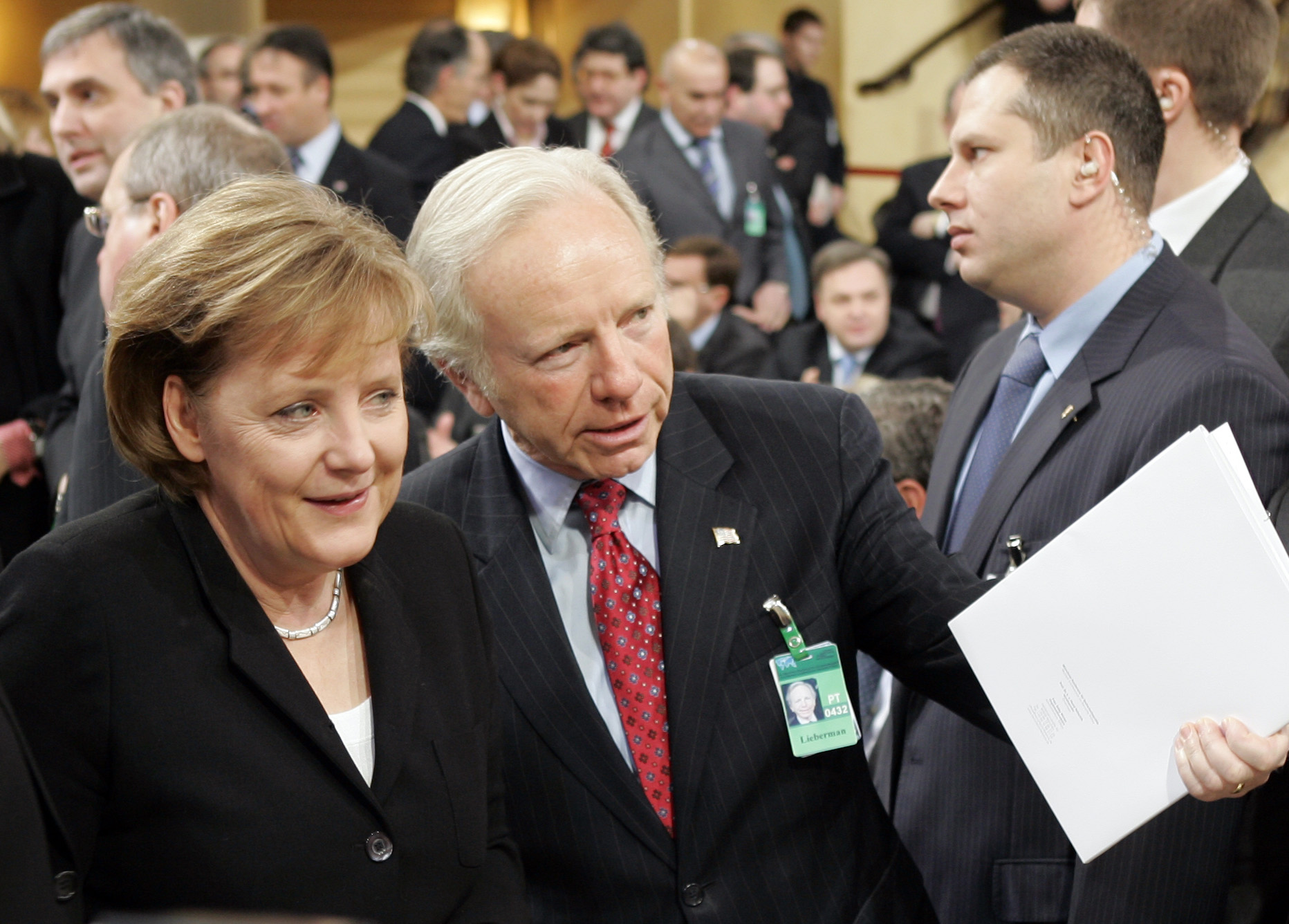 43rd Munich Security Conference 2007: The Federal Chancellor of Germany, Dr. Angela Merkel (li) and US-Senator Joseph I. Lieberman.